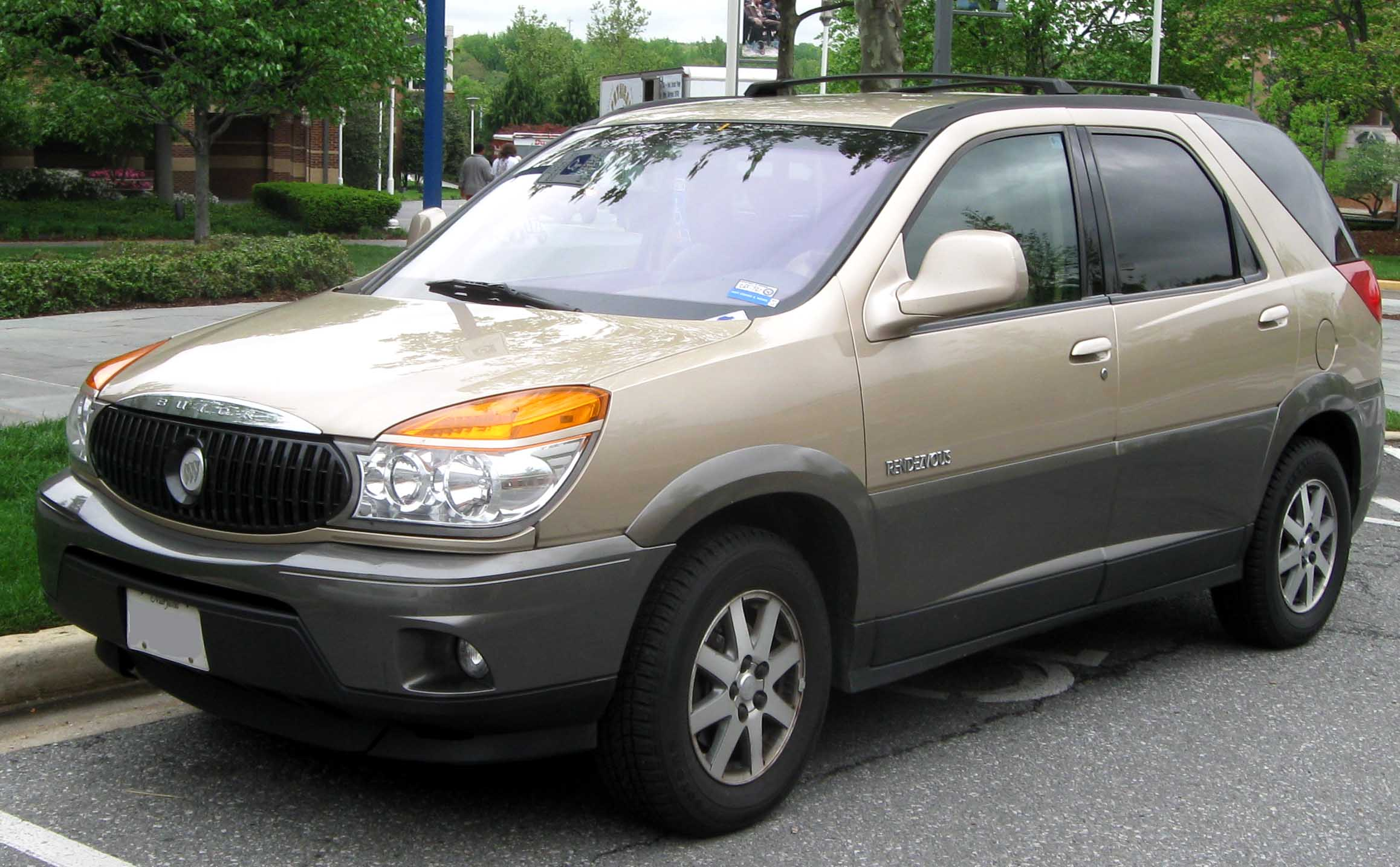 2002-2003 Buick Rendezvous photographed in College Park, Maryland, USA.